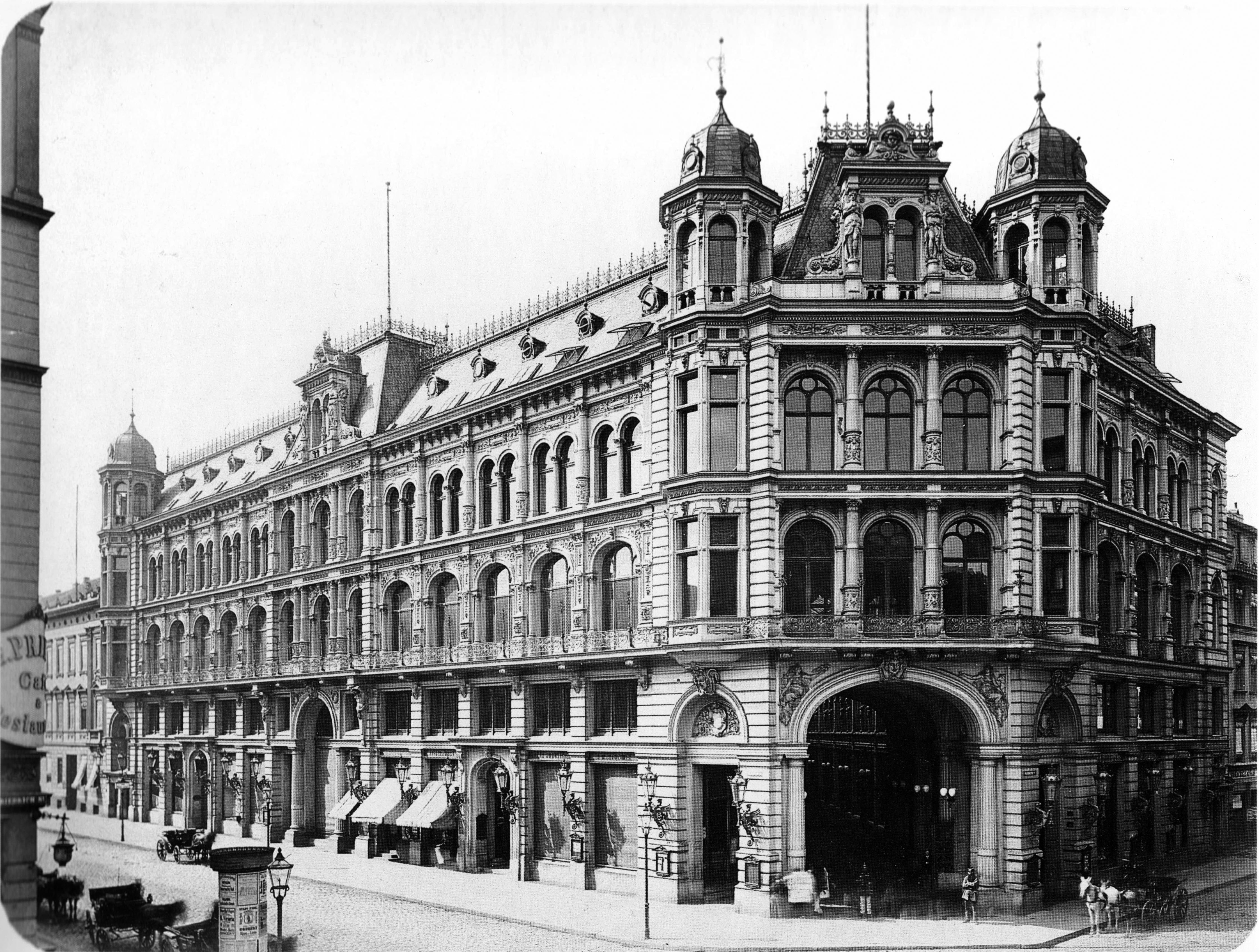 The Kaisergalerie (“Emperor Galery”) in Berlin's Friedrichstraße, on the corner to Behrenstraße. The building opened in 1873. It was largely destroyed in 1943 by an allied air raid. The place now holds the hotel Westin Grand Berlin.